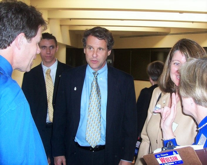 Ohio Democratic Party event